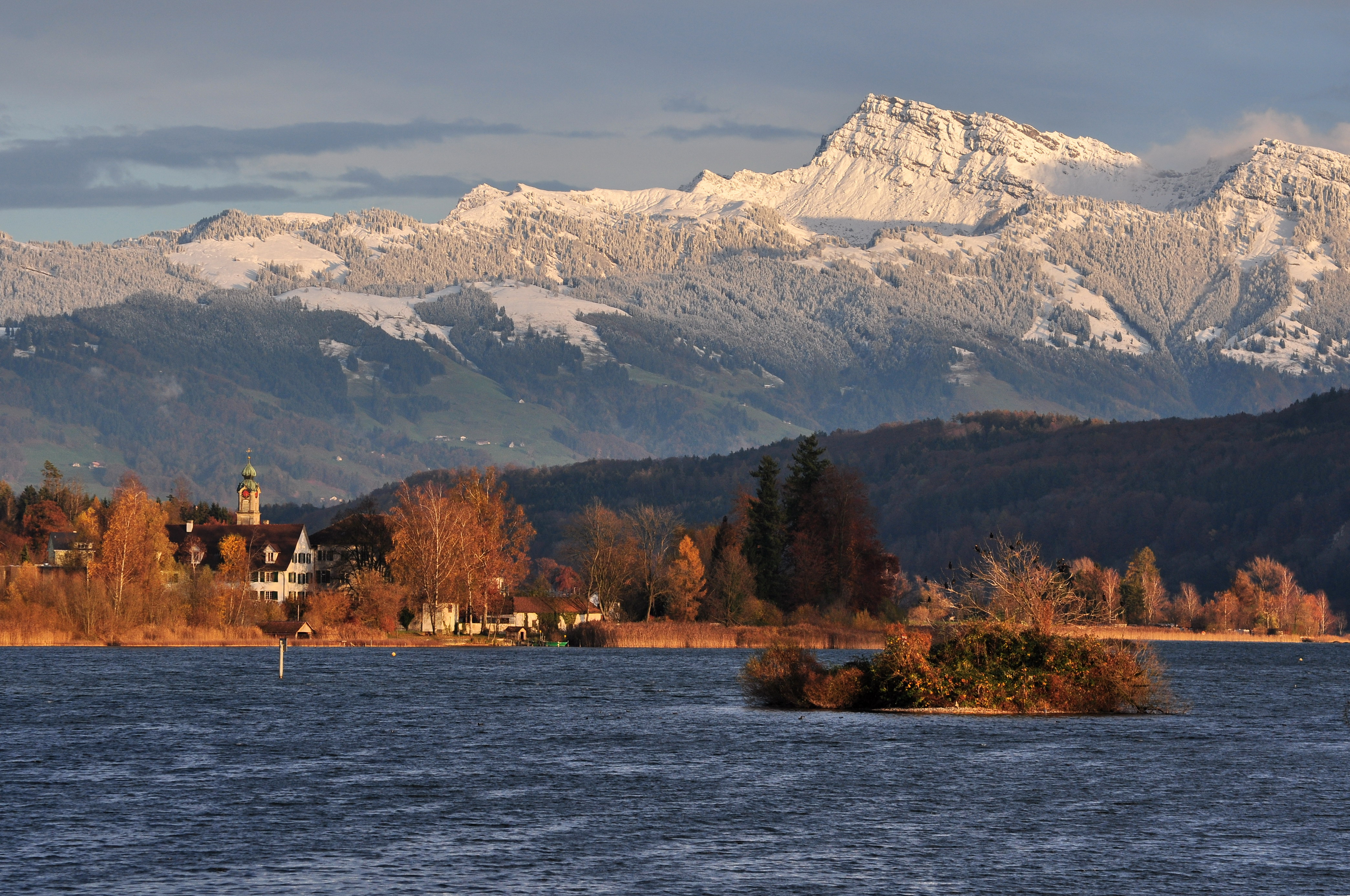 Obersee (upper Lake Zurich) and Mariazell-Wurmsbach, as seen from Stampf in Jona (Switzerland), Speer and Chüemettler mountains in the background.